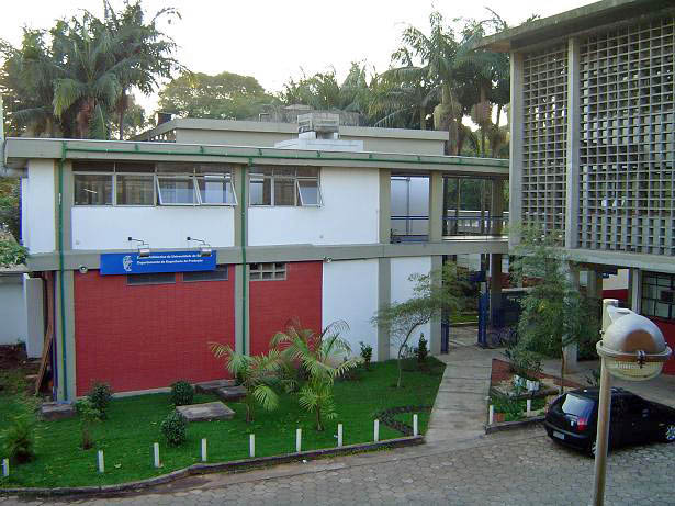 Industrial Engineering building at Polytechnic School, University of São Paulo, Brazil.